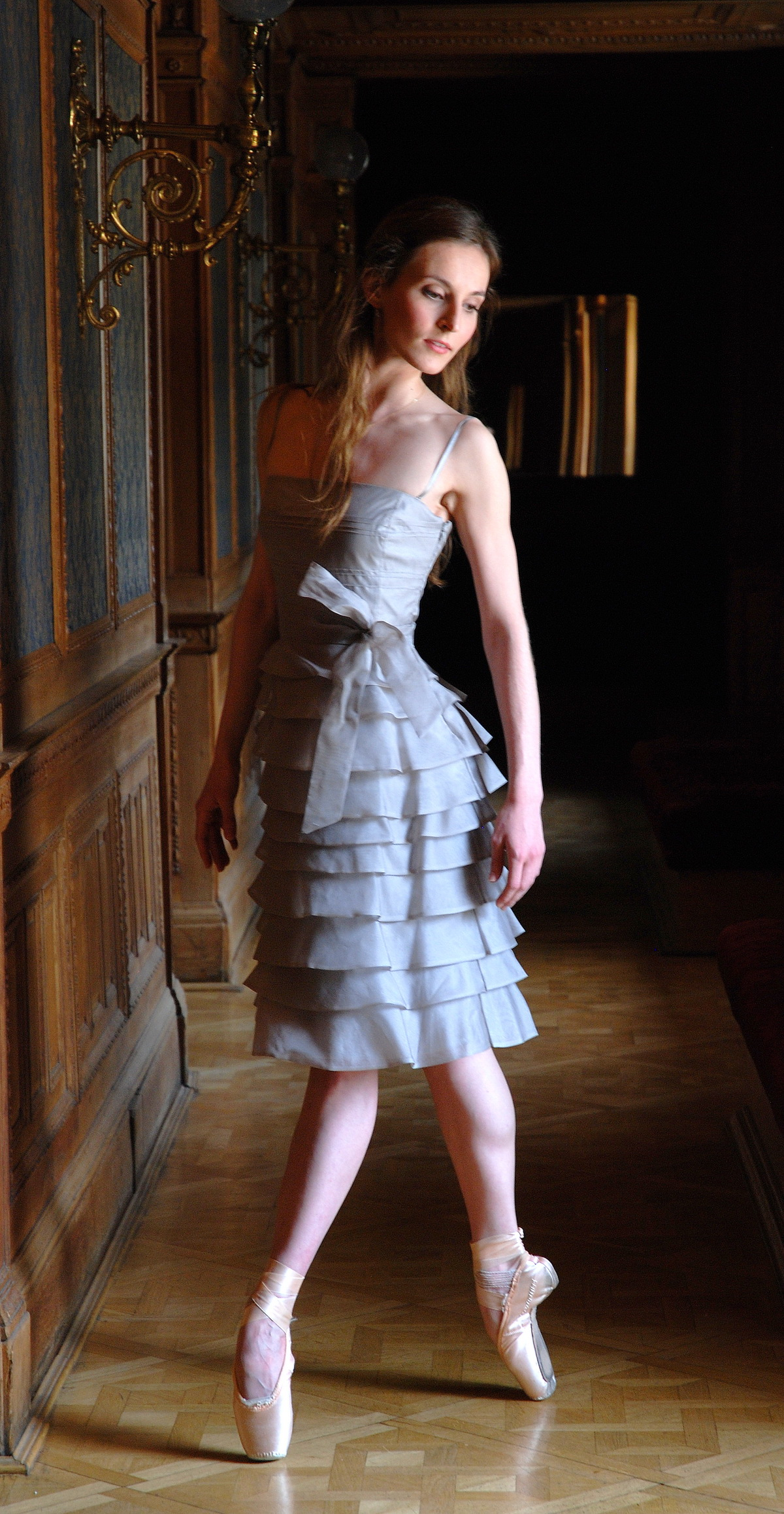 Enikő Somorjai ballerin in the Hungarian State Opera (Budapest, Hungary) in 2008 by Adrienne Horváth ballerin and photograph.